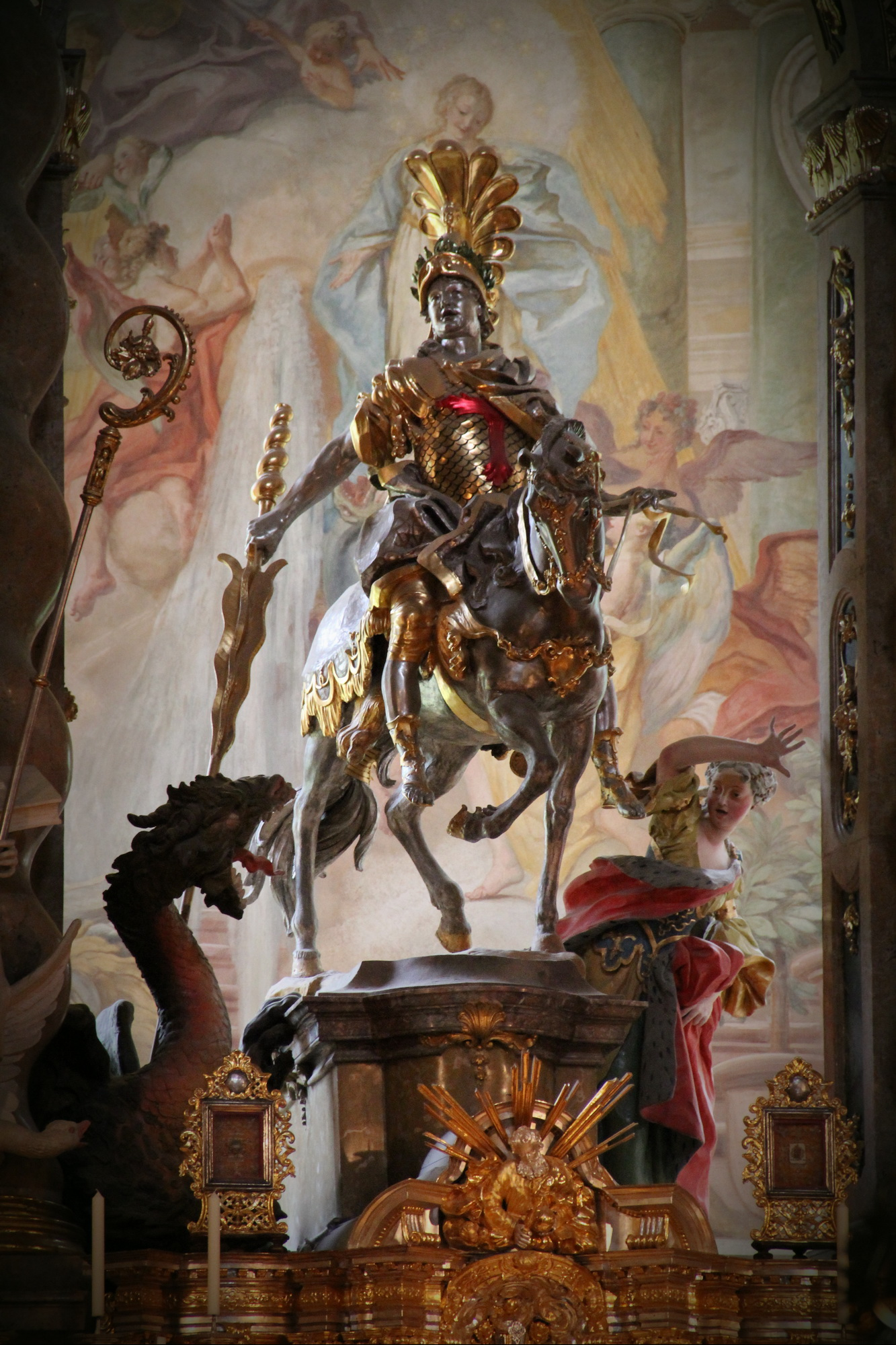 The main altar Weltenburg Abbey Native nameKloster WeltenburgLocationWeltenburg, Lower Bavaria, GermanyCoordinates48° 53′ 56″ N, 11° 49′ 11″ E Established7th century date QS:P,+650-00-00T00:00:00Z/7Web page control : Q260108 VIAF: 140754787 LCCN: n83039576 GND: 809502-4 WorldCat institution QS:P195,Q260108